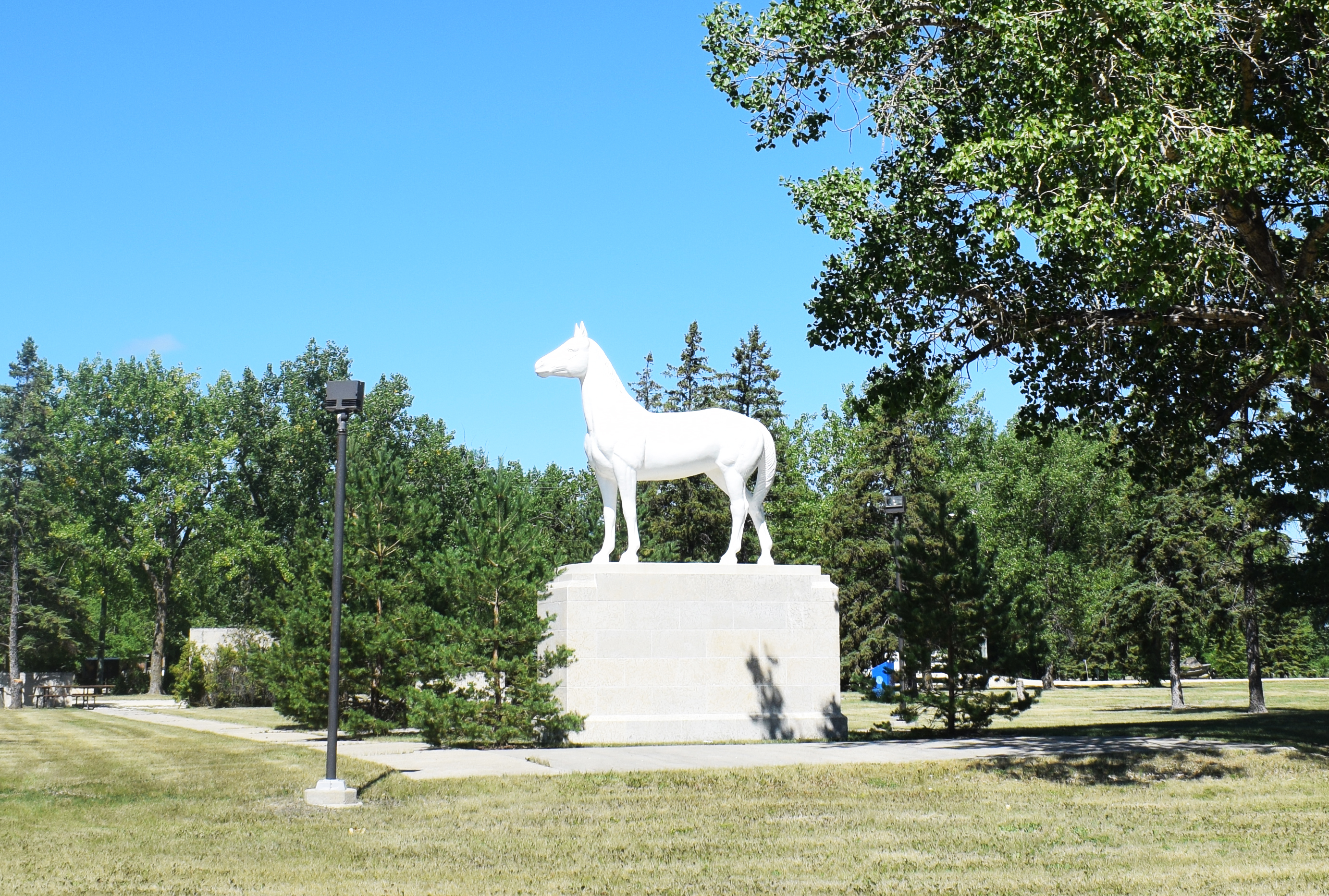 Statue of the White Horse at signifying White Horse Plains with plaques that describe the legend.